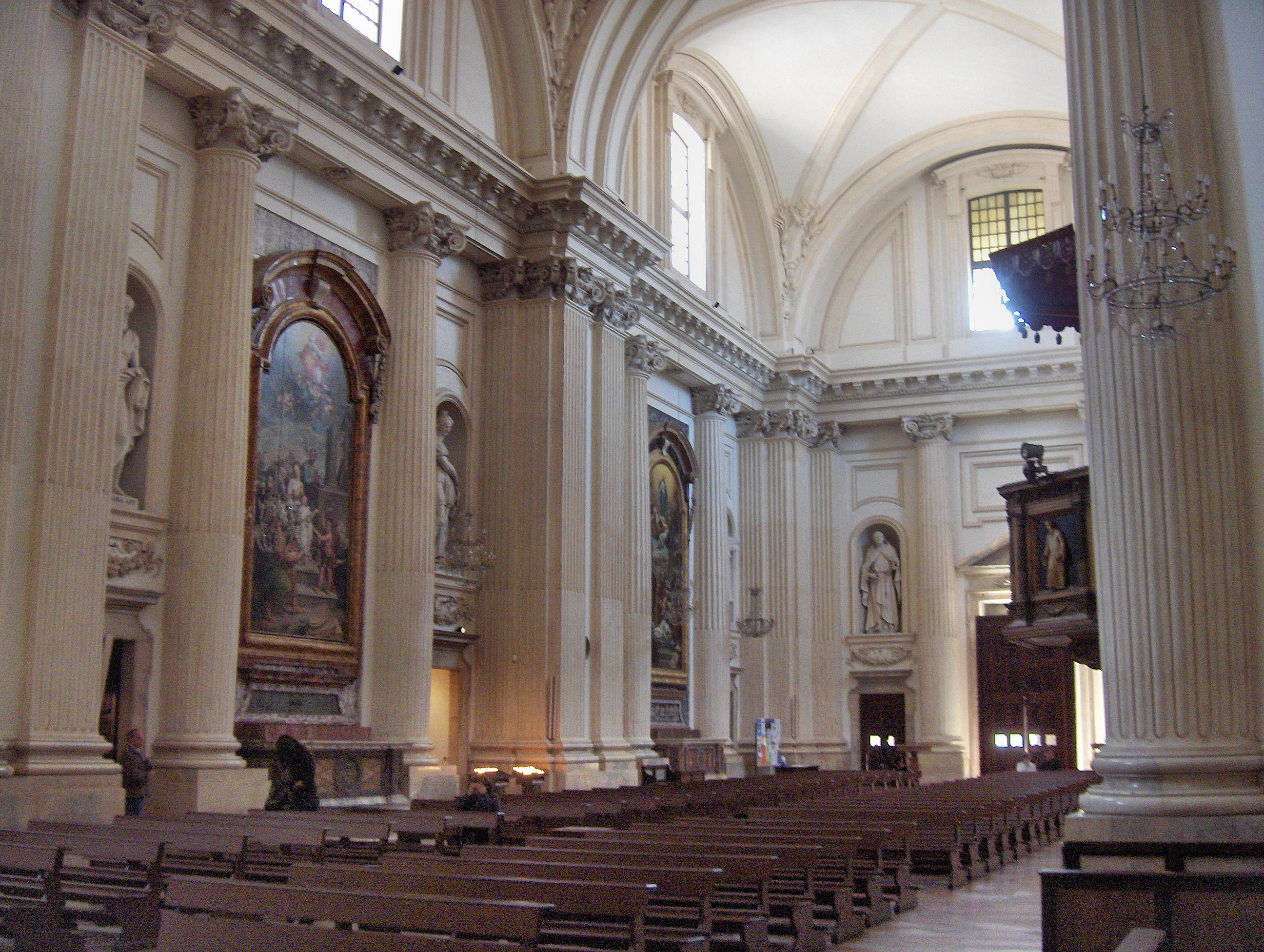 Nave of the Cathedral of San Feliciano, Foligno, Italy